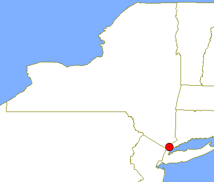 Location map of White Plains, New York